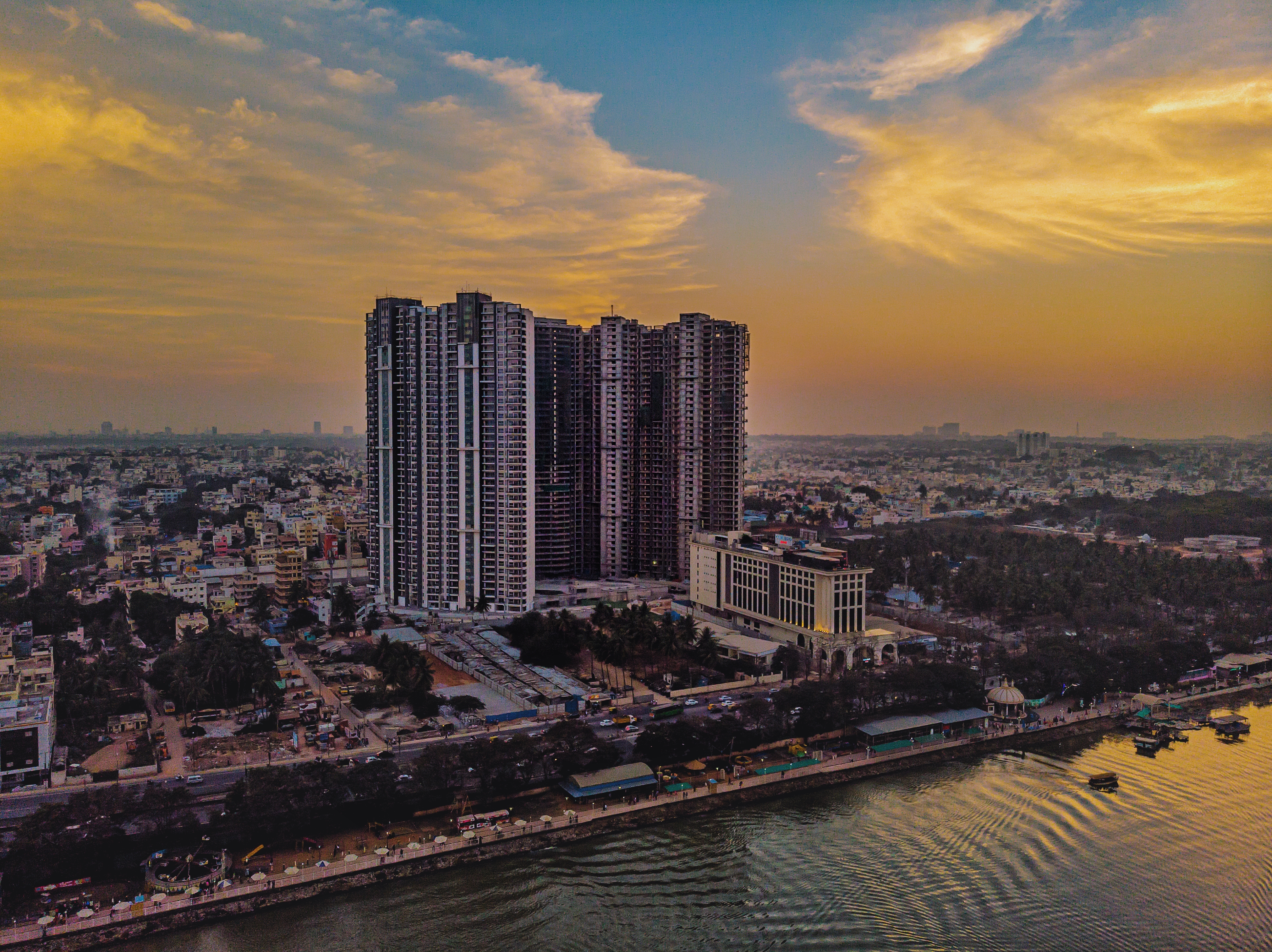 Aerial view of Nagawara Lake